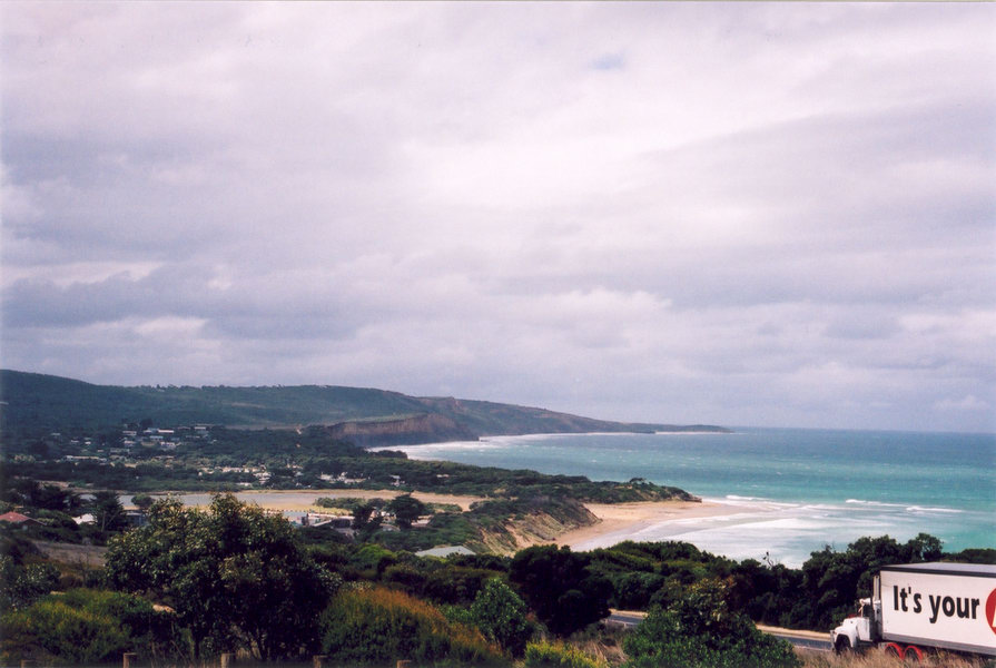 Anglesea, Victoria Australia, seen from the lookout to the west of the town.